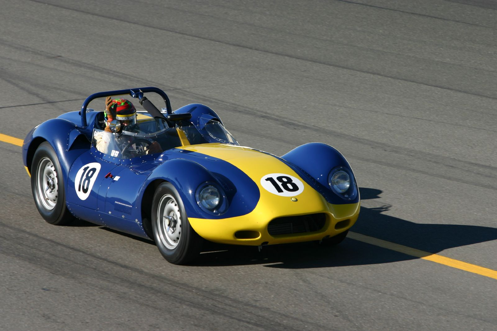 18 - 1958 Lister Jaguar Driven by Tom Malloy of Villa Park, CA